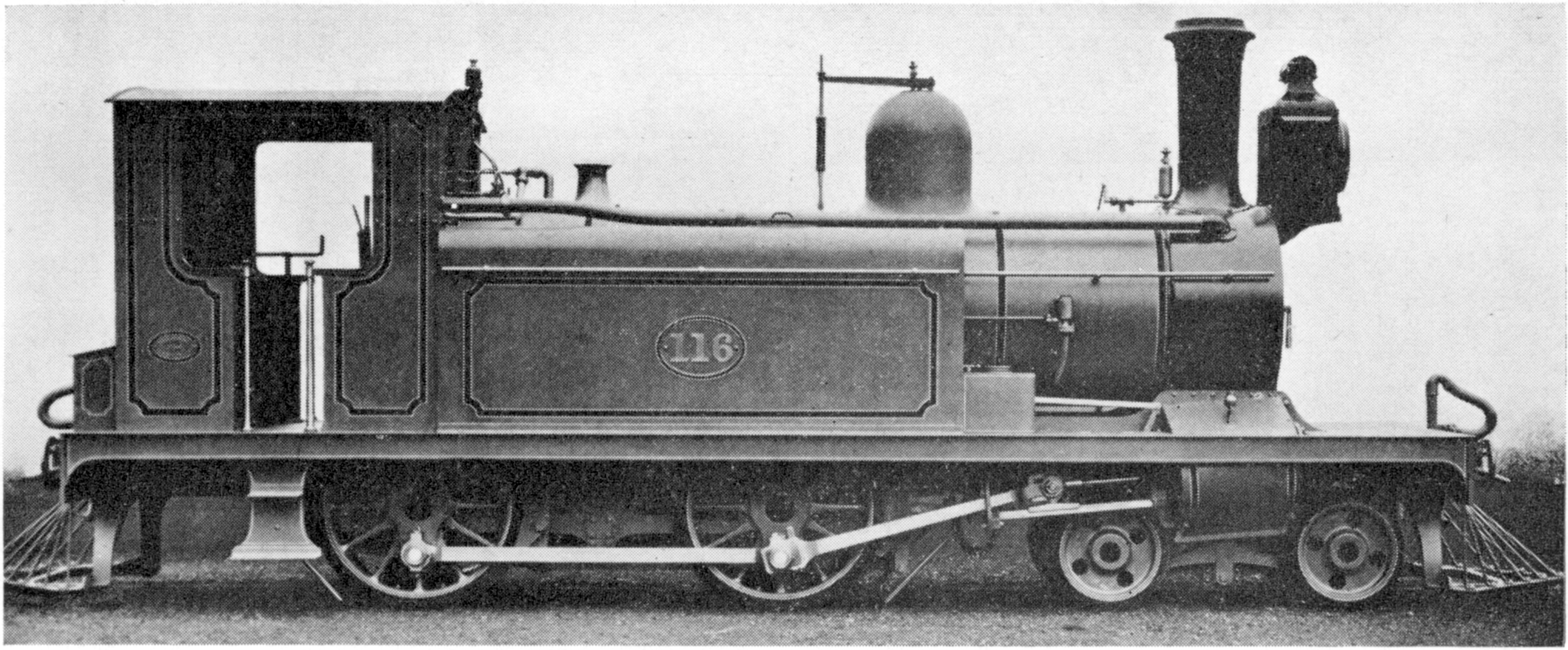 Cape Government Railways 2nd Class (4-4-0T) of 1882, the "Wynberg Tank", later SAR obsolete Class 02. (The number 116 on its side may be puzzling since that number belongs to a CGR 3rd Class 4-4-0 tender locomotive, built by Dübs in 1889, works no, 2547. The no. 116 plate was possibly affixed by the builders, since the engine's CGR number was W93.)